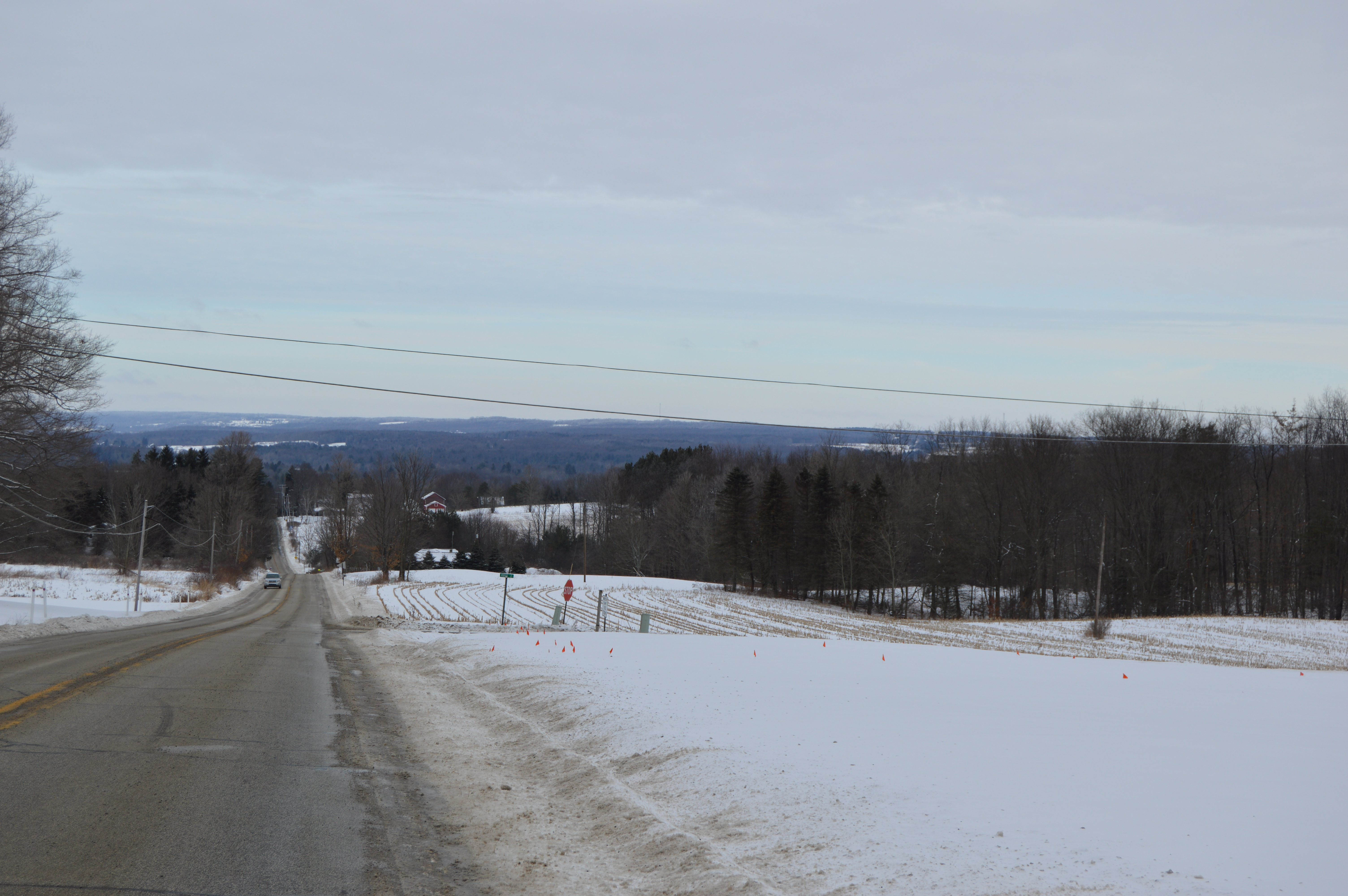 Looking northward along the eastern side of Pennsylvania Route 86 south of Cambridge Springs in Cambridge Township, Crawford County, Pennsylvania, United States.